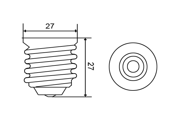 Edison screw E27